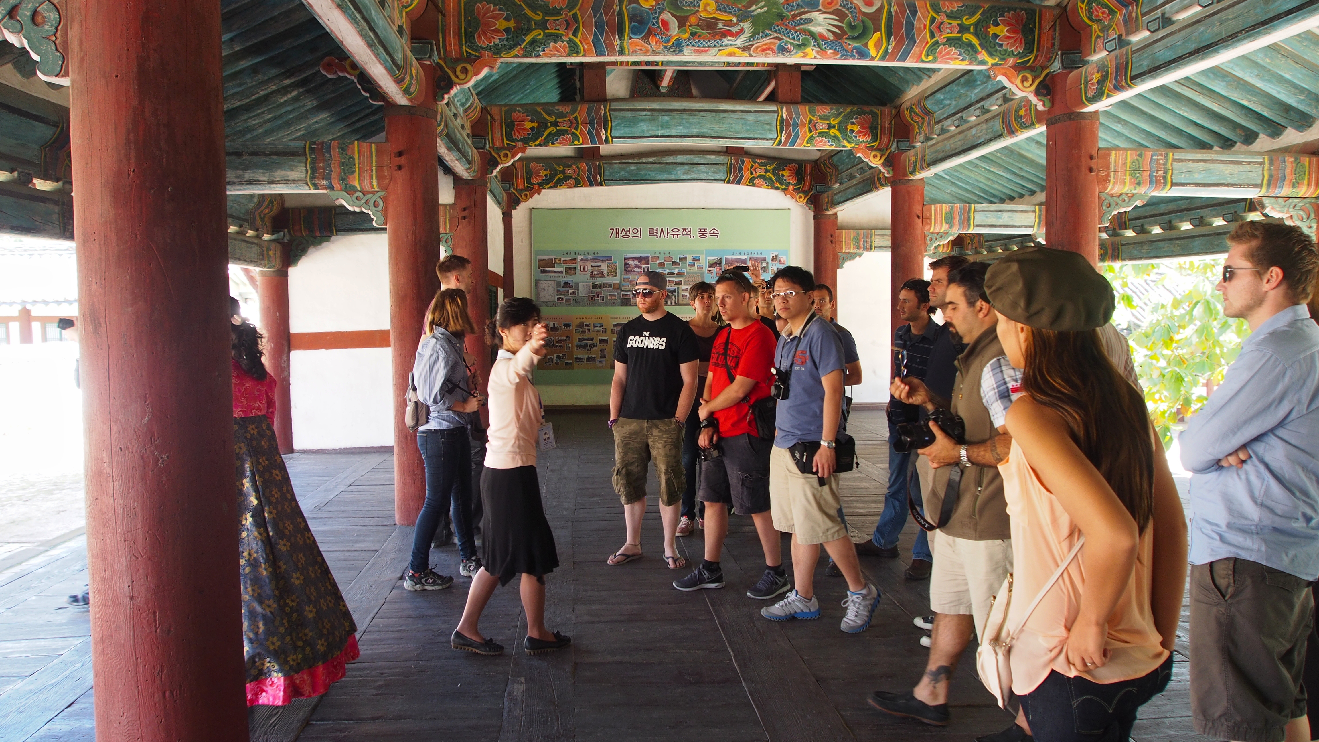 The Koryo Museum, housed in the city's old Confucian academy, contains many priceless Koryo arts and cultural relics (although many are copies, with the originals held in the vaults of the Korean Central History Museum in Pyongyang.